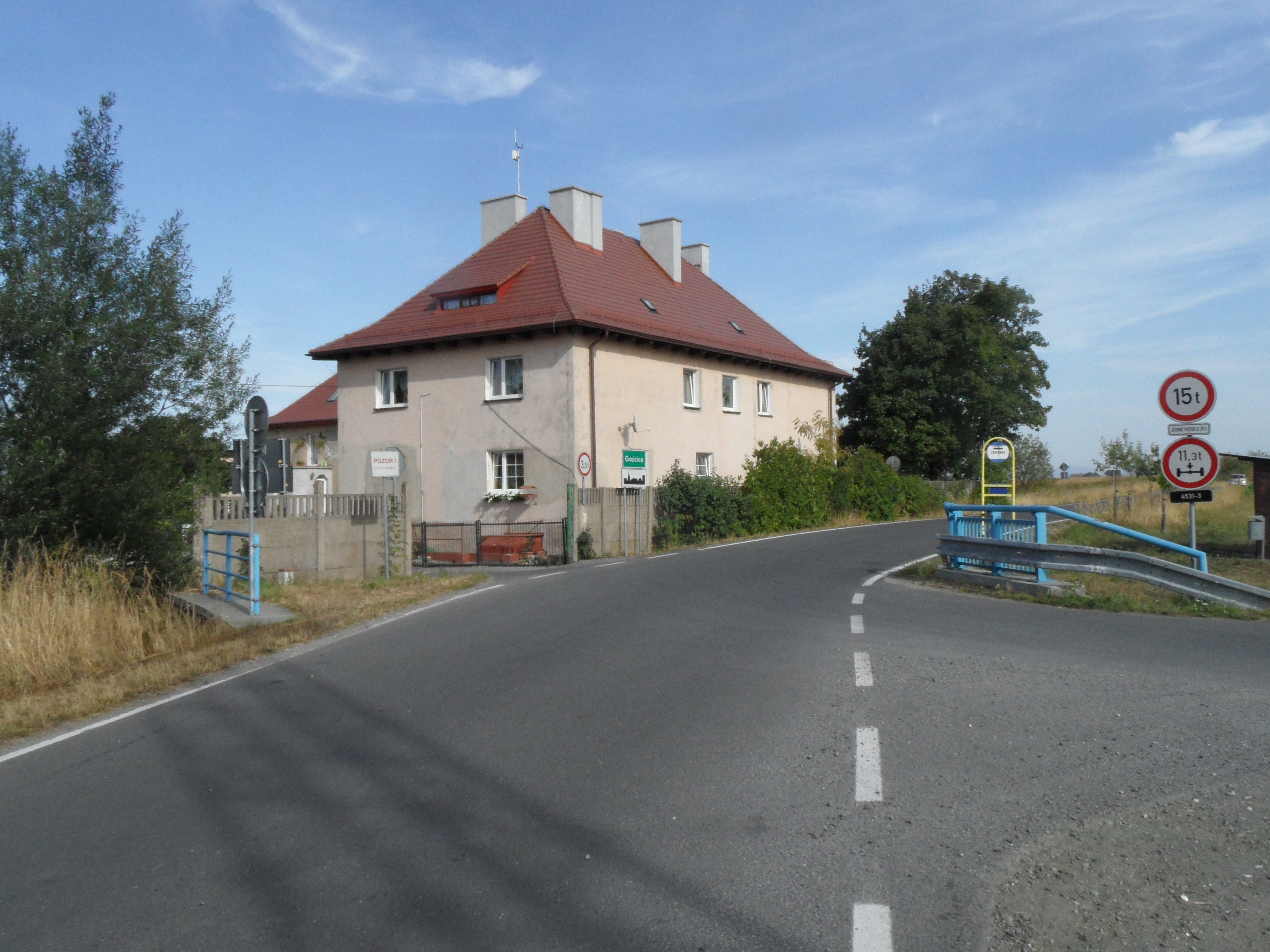 Horní Hoštice B. Crossroads with Bust Stop. On the Right is Main (West) Part of the Village. House is already in Poland: Village Gościce. Jeseník District, the Czech Republic.